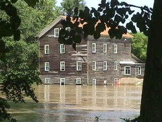 Stockdale Mill on the northern Eel River at Roann in Wabash County, June 1998. This image is resized from the original, which was found at [1].